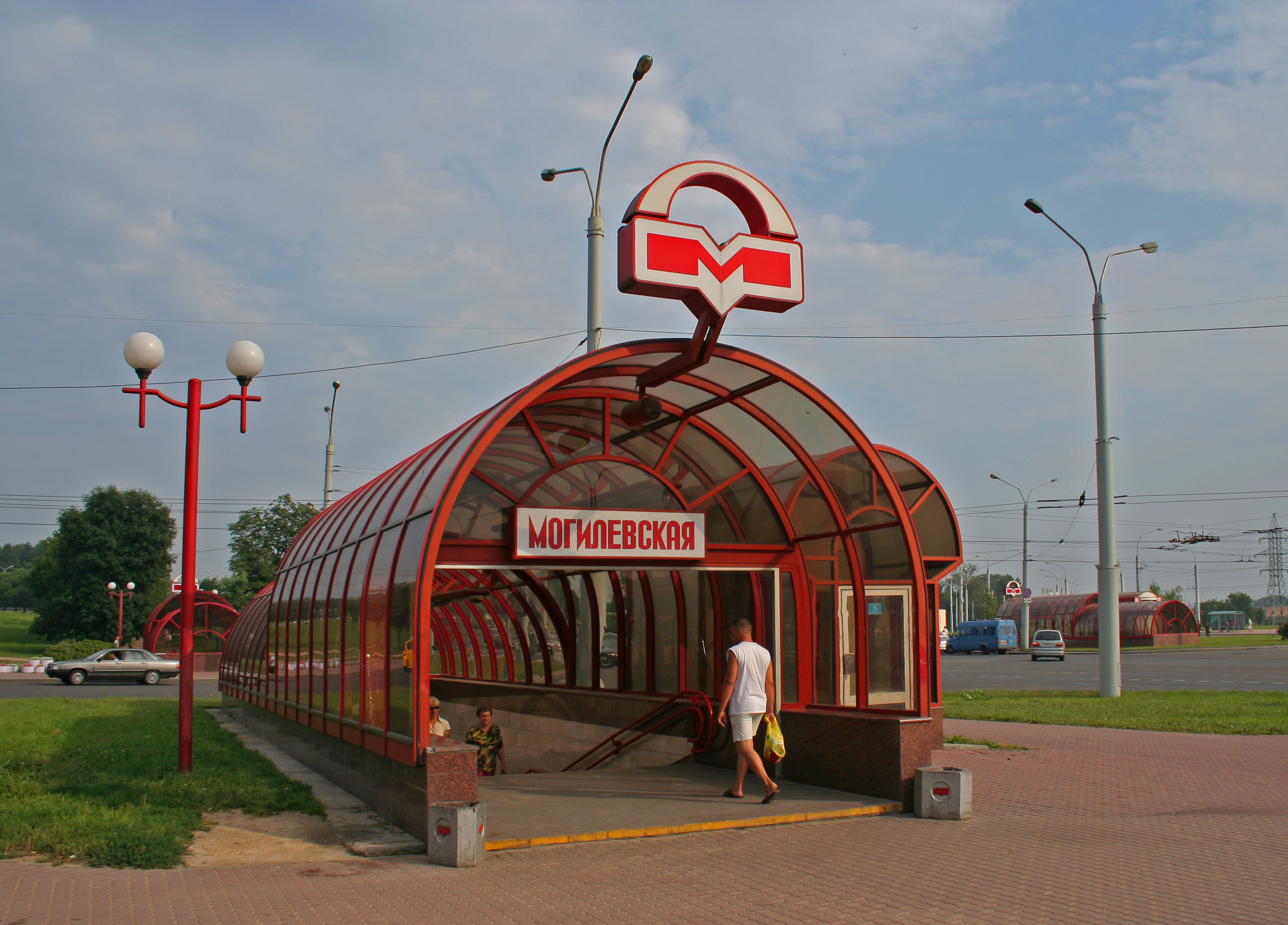 Views of Minsk (Belarus). The metro. Entrance to the Mogilevskaya station.